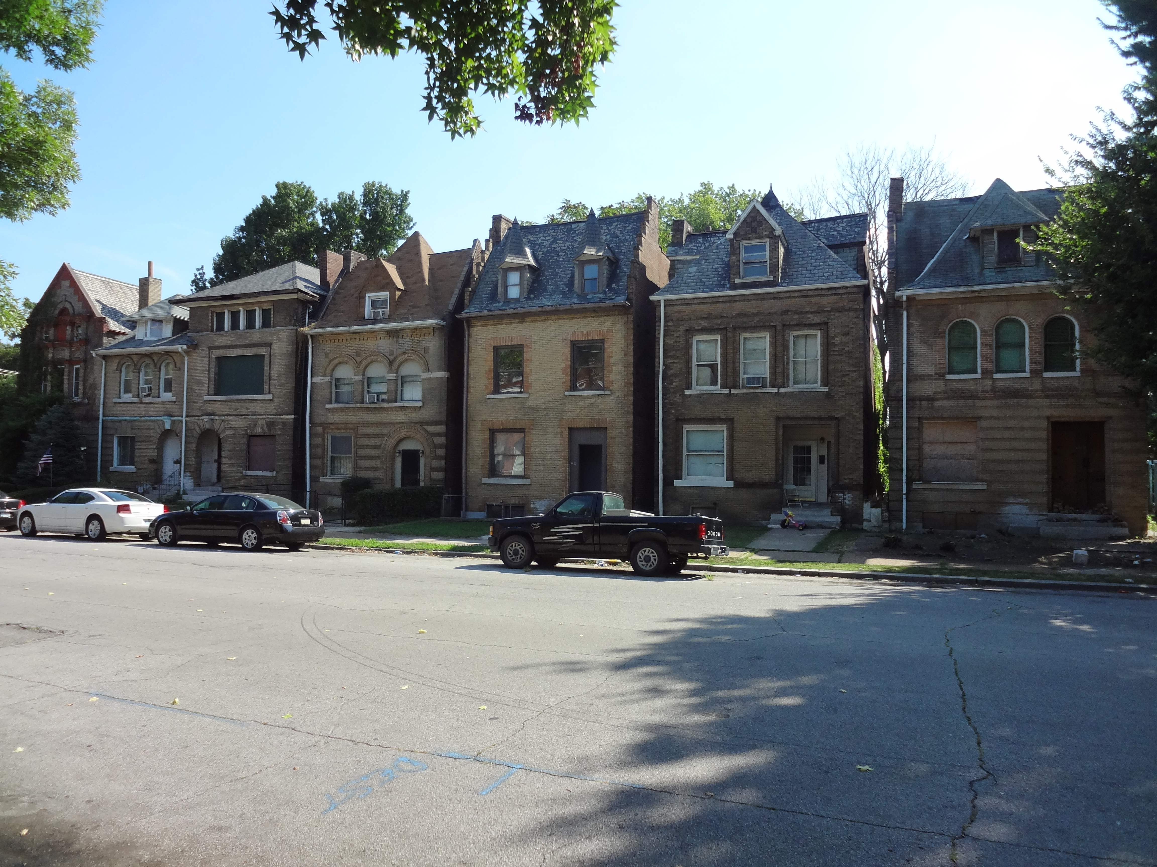 Cook just West of Pendleton